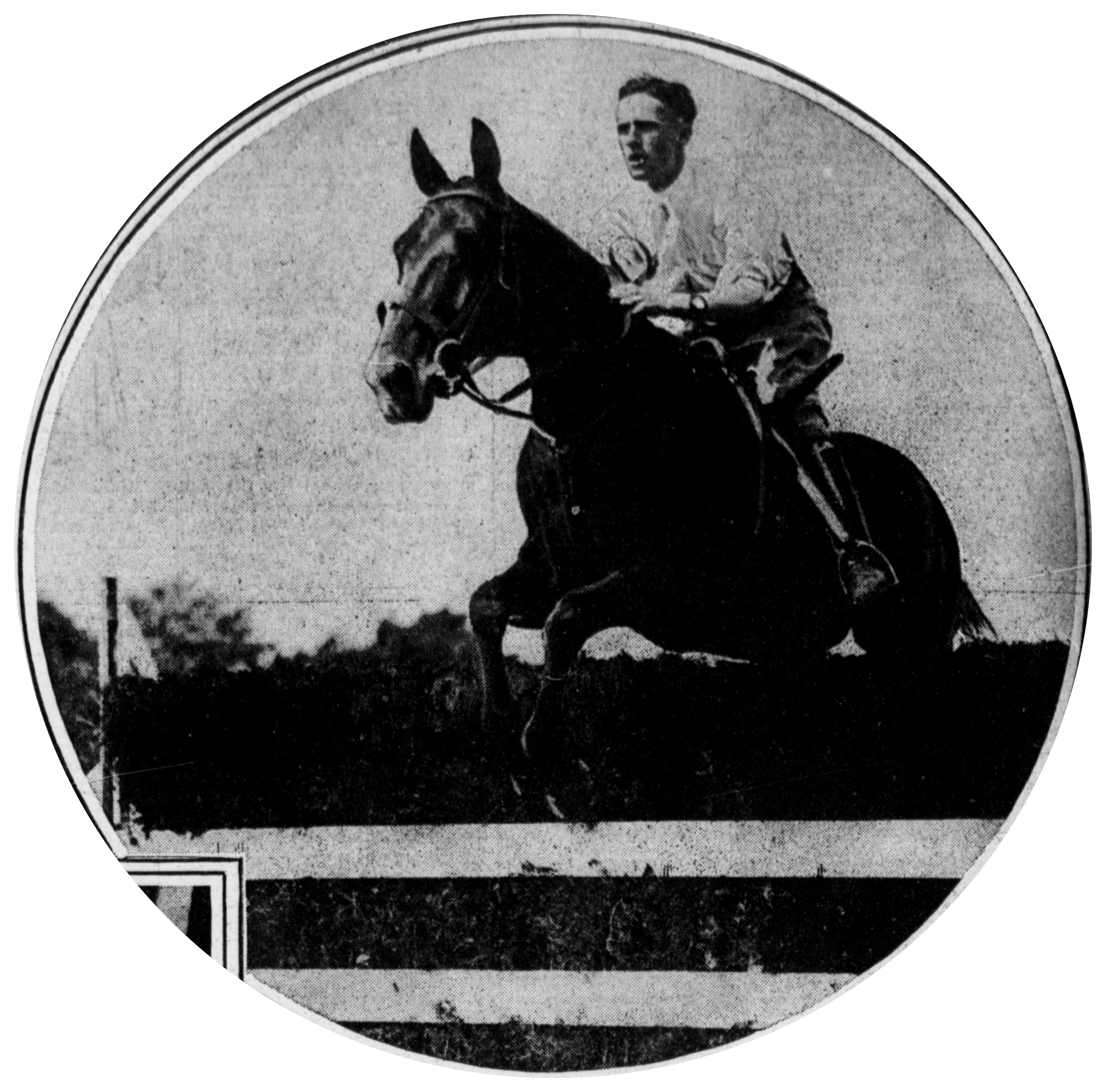 William du Pont, Jr., on horseback, at Wilmington horse show, 1915